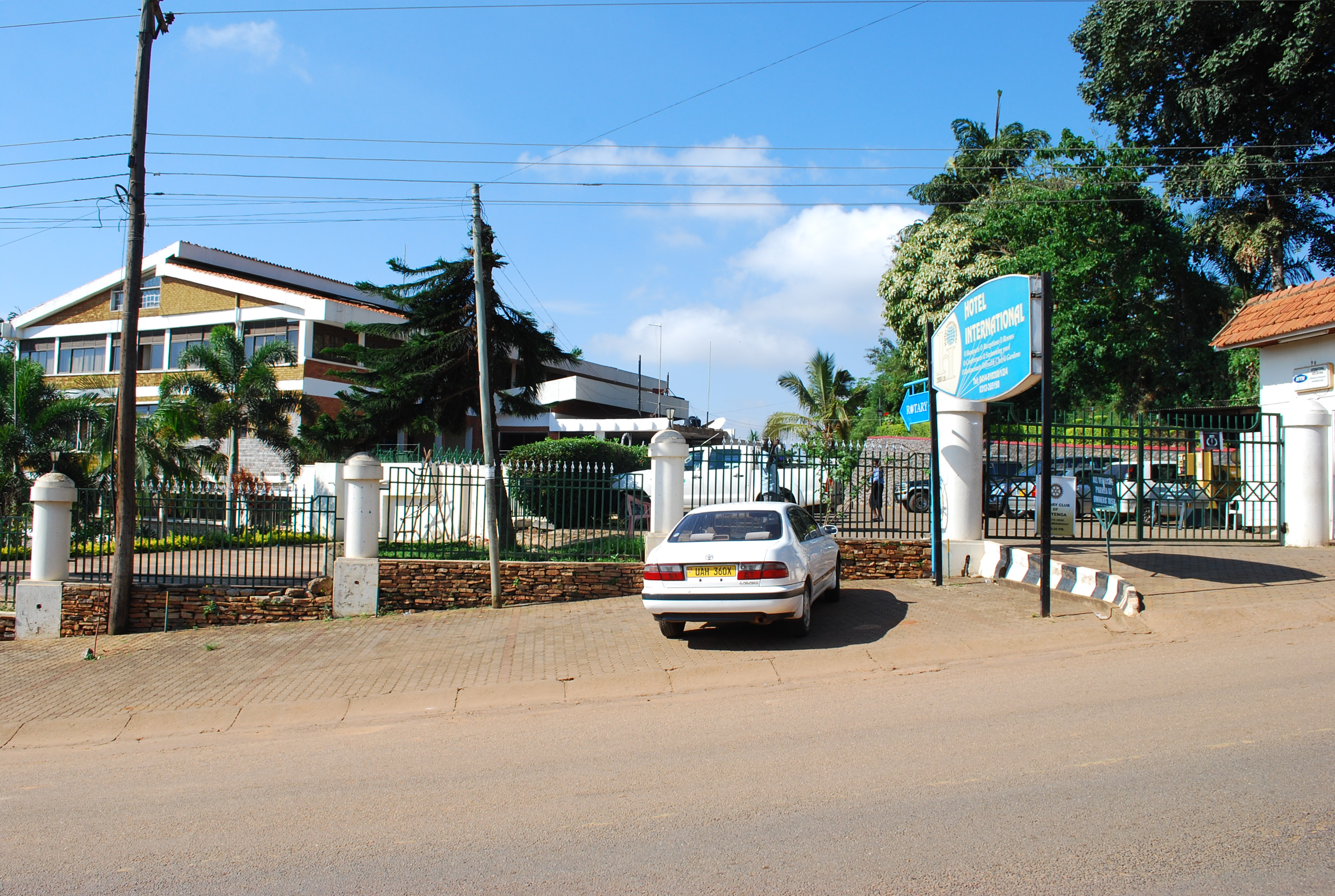 Hotel International 2000 Main Gate